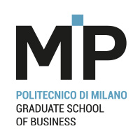 Logo MIP Politecnico di Milano